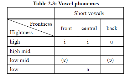 Vowel phonemes used in Saaroa, loan phonemes are indicated in parenthesis